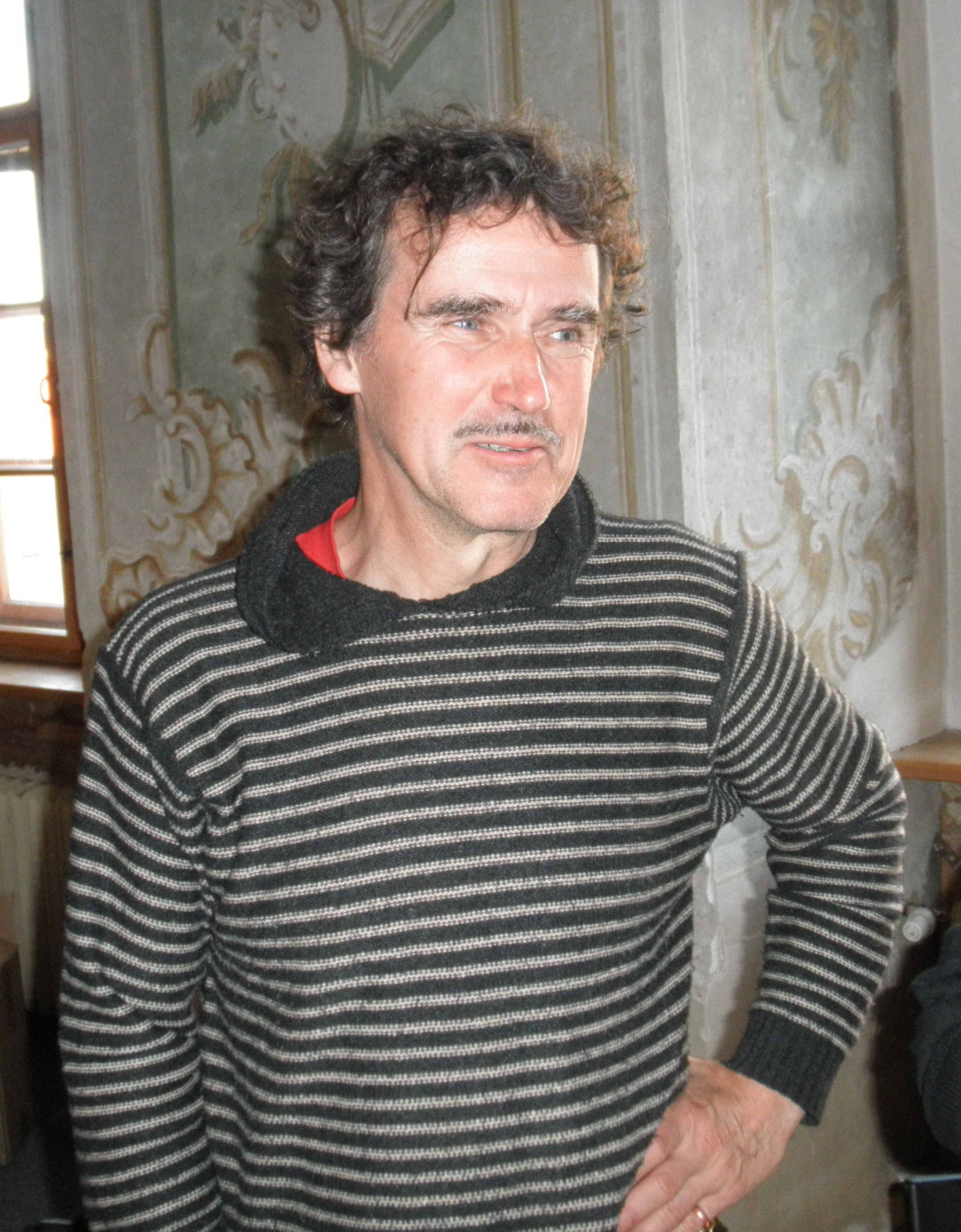 František Skála, Czech slulptor and artist.